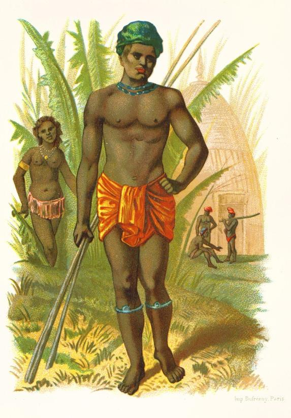 Antique lithograph published by Garnier of Paris and printed in colour by Imprimerie Dufrenoy, entitled Canaques (Nouvelle-Calédonie) [Kanaks, New Caledonia]